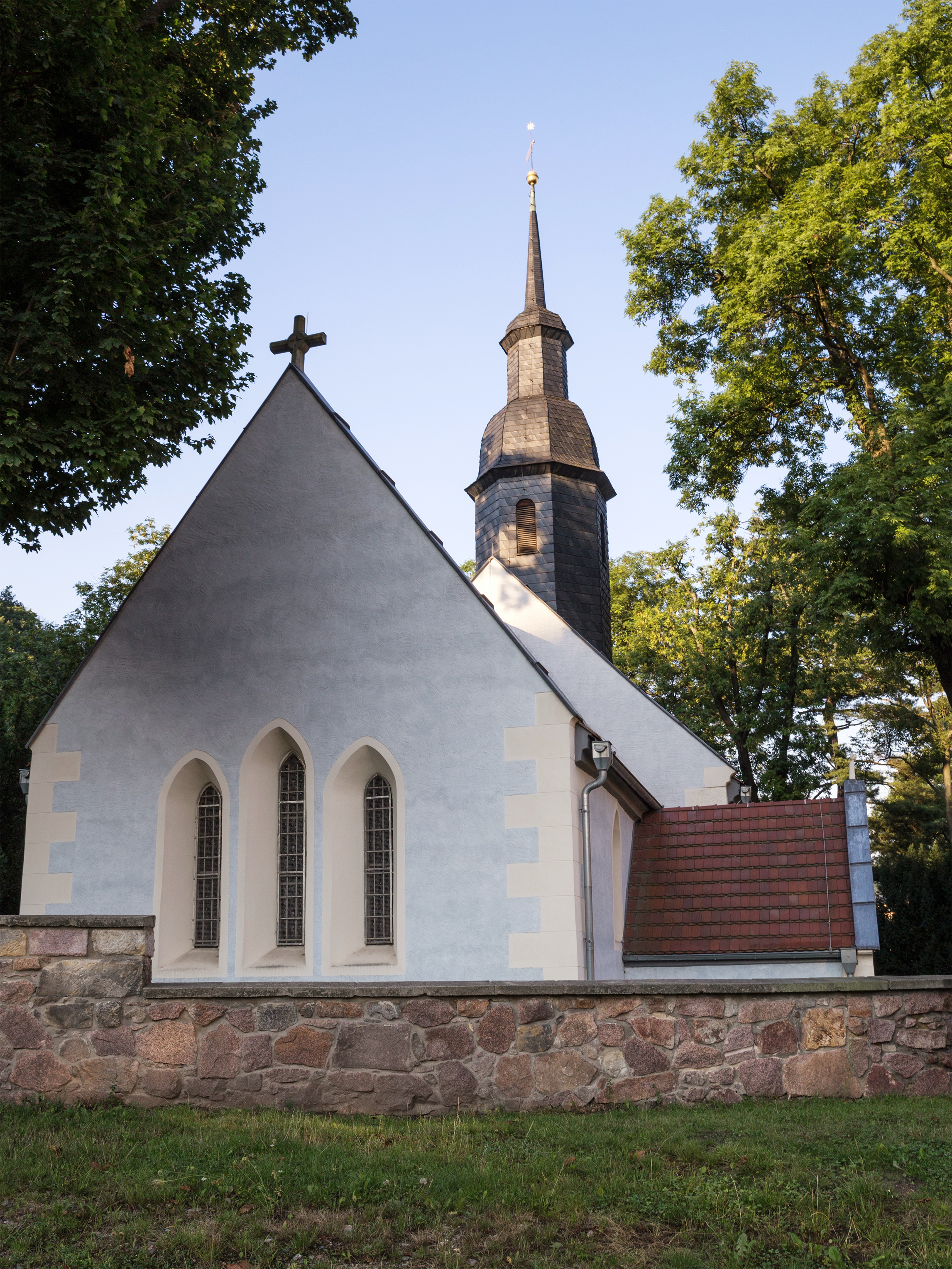 Meißen, Saxony, church Nikolaikirche